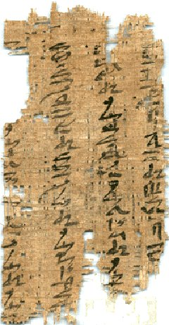 Papyrus Harageh 1 (UC 32773), papyrus fragment form the late middle kingdom in Ancient Egypt, found at Harageh, contains part of the "Story of Sinuhe", exposed in the Petrie Museum